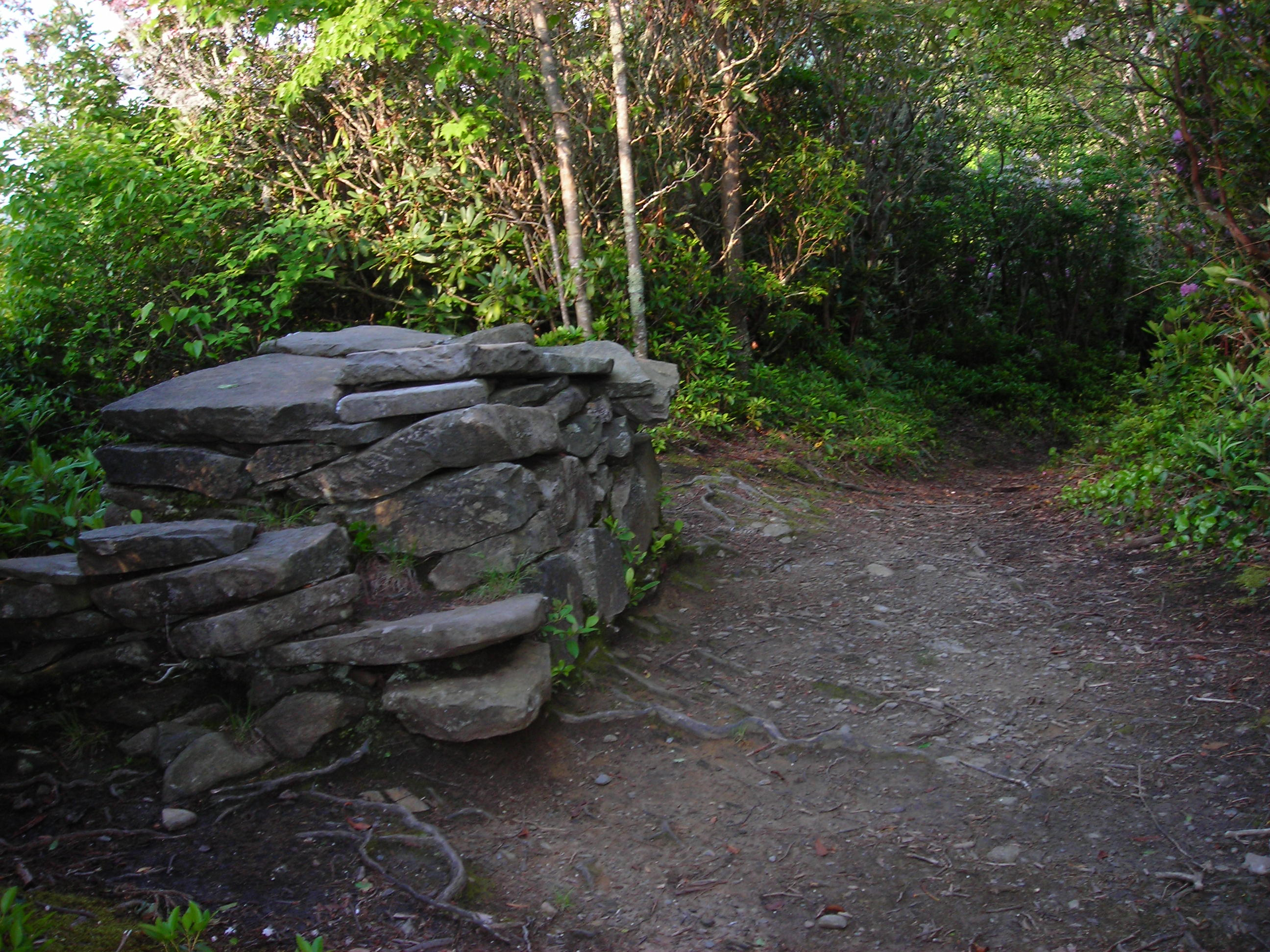 The stone platform located halfway along the Bullhead Trail to Mount Le Conte offers onlookers partial views into the Greenbrier Valley of the Great Smoky Mountains. Photo taken by myself, Scott Basford, on June 3, 2006.